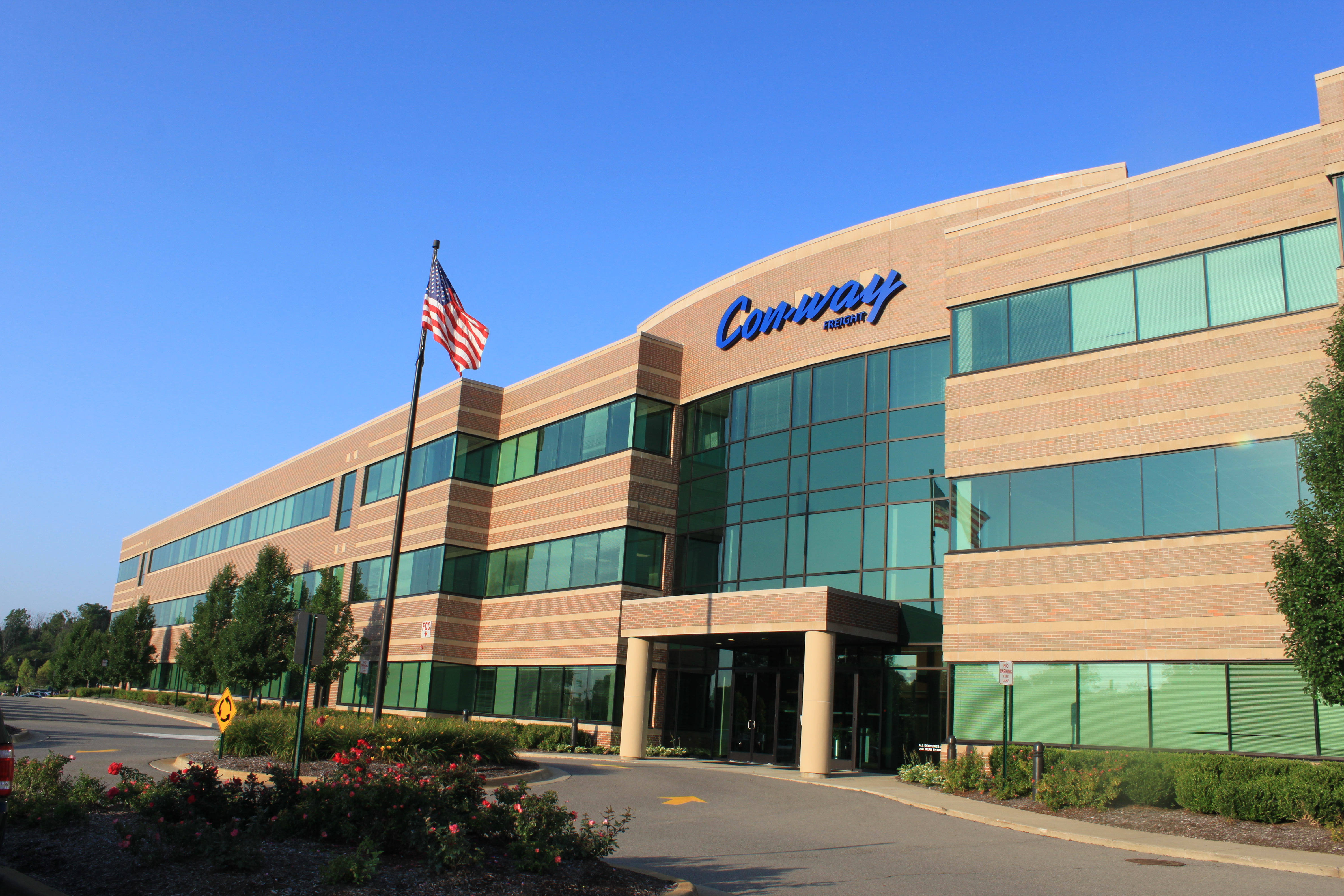 Con-Way Freigh headquarters building, 2211 Old Earhart Road, Suite # 100, Earhart Corporate Center, Ann Arbor, Michigan